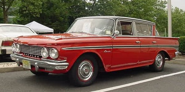 1961 Rambler Classic by American Motors Corporation (AMC) four door sedan, finished in two-tone red and black